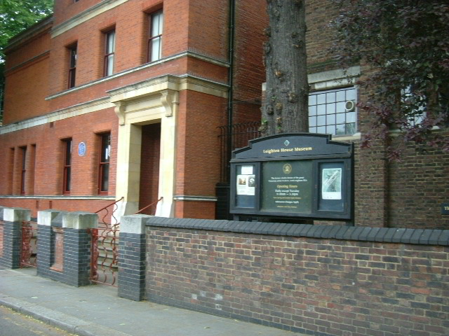 Leighton House museum, W14 In Holland Park Road, he's also got a blue plaque dedicated to him.